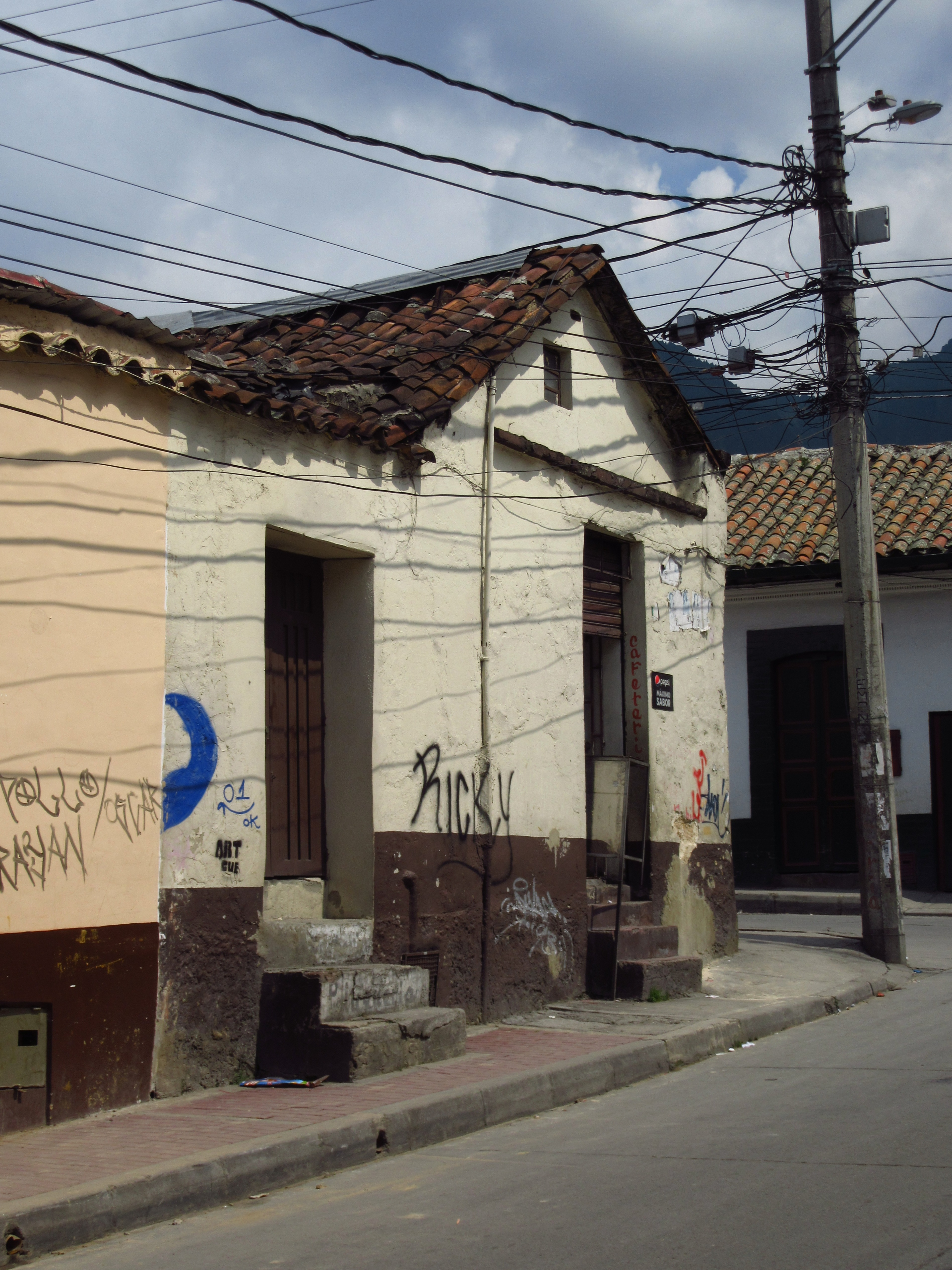 Bogotá